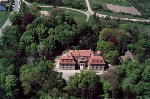 Sorokpolány, Hungary, aerialphotography